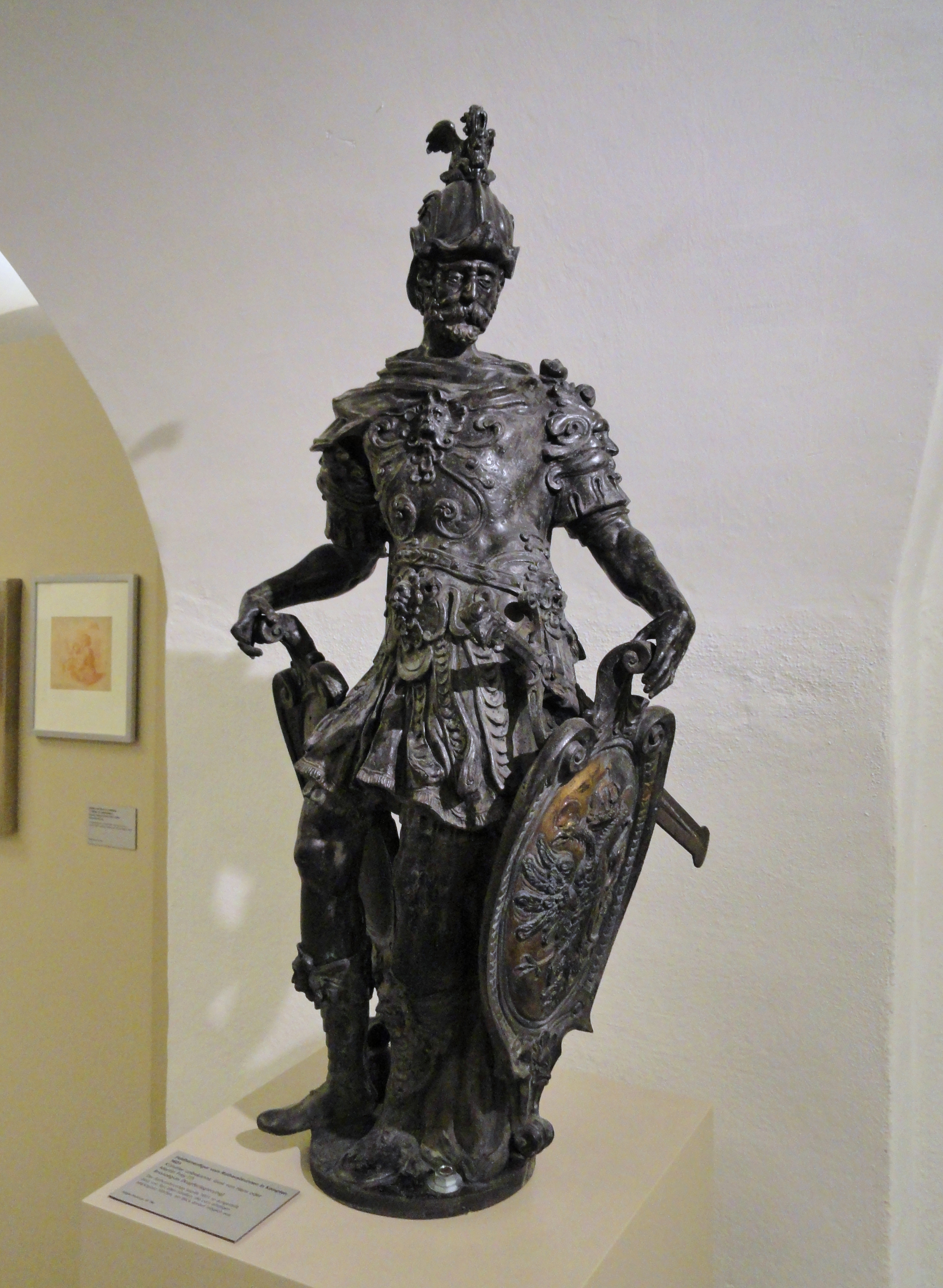 Figure of the town-hall-well in the Kornhaus in Kempten